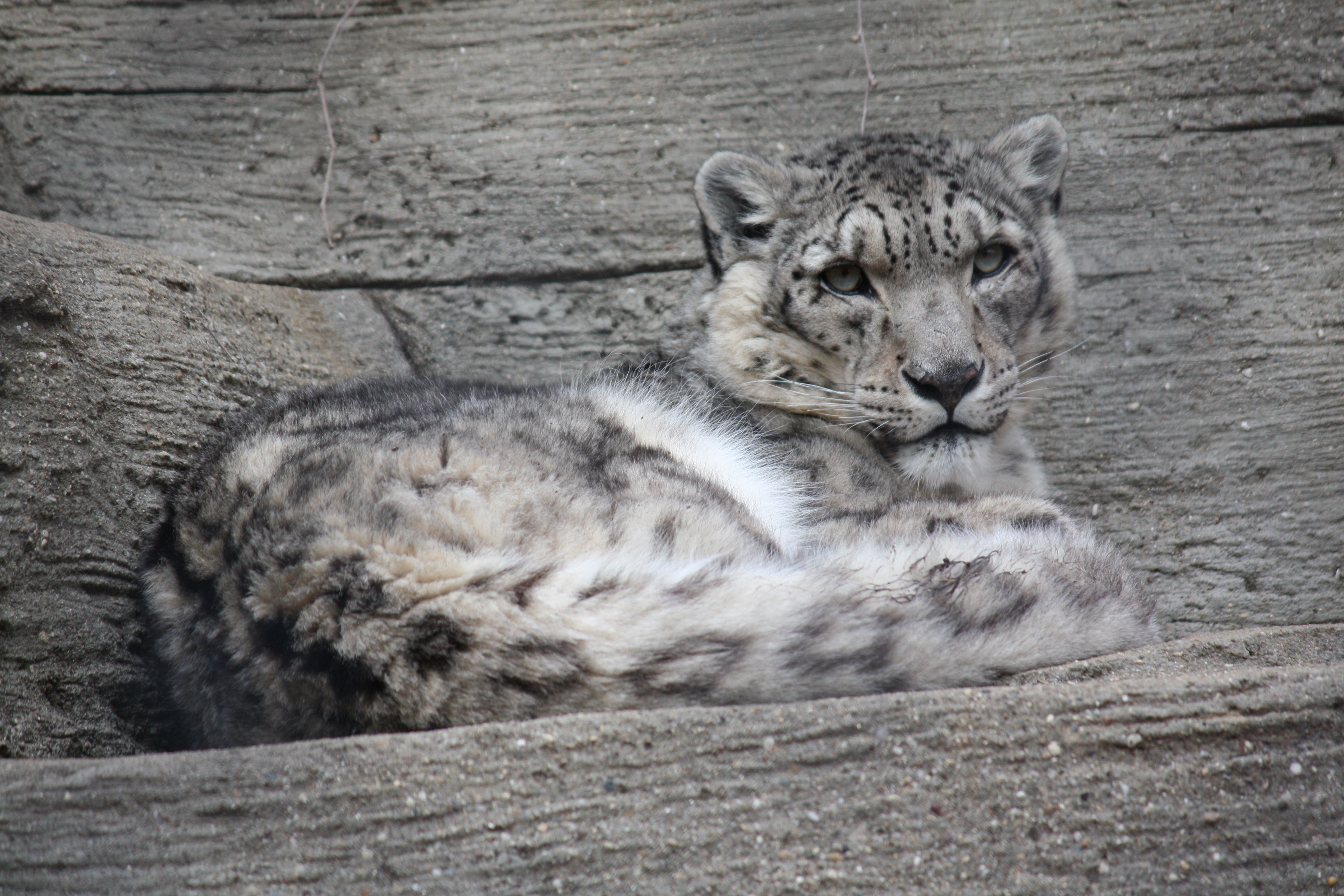 Snow Leopard at Louisville Zoo